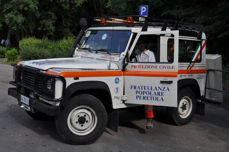 pc jeep